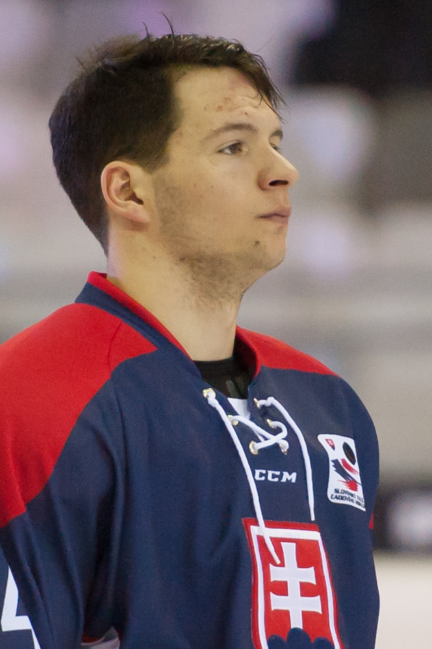 Euro Ice Hockey Challenge Vienna, February 7, 2015, Austria vs. Slovakia